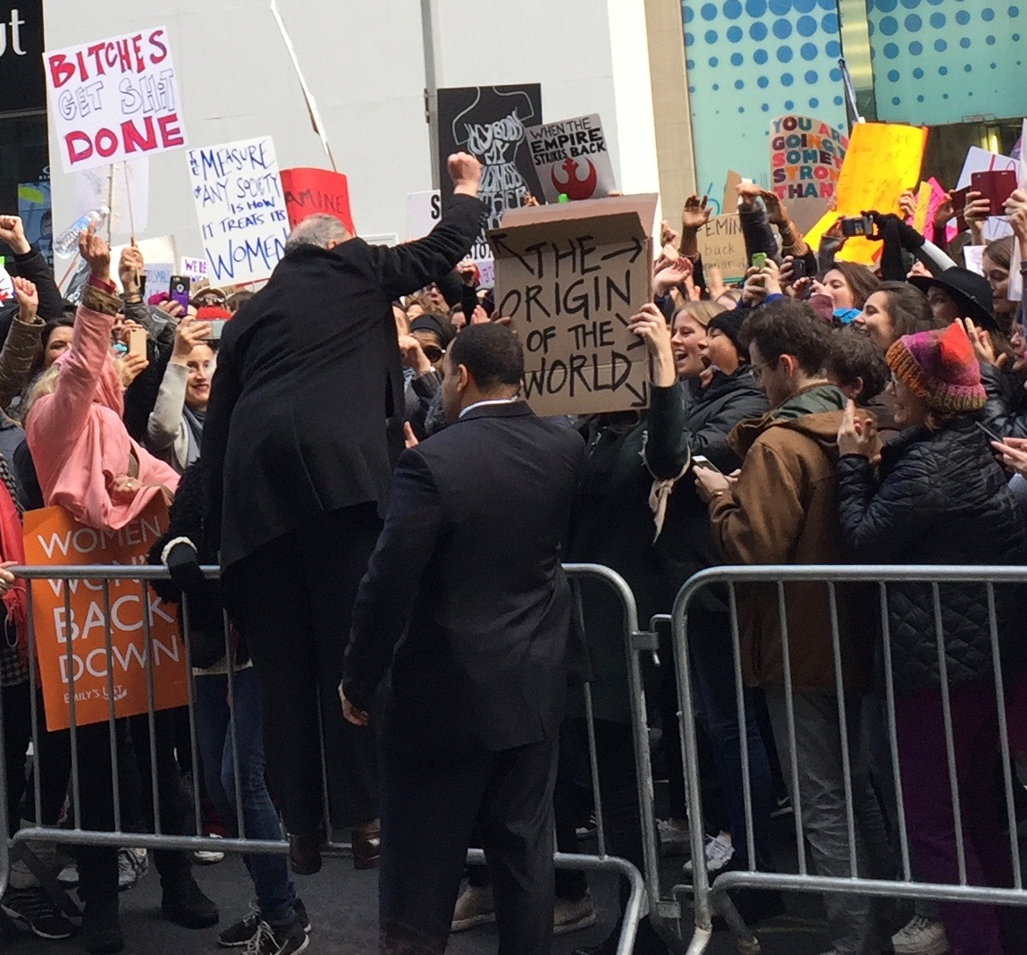 Chuck Schumer at protest